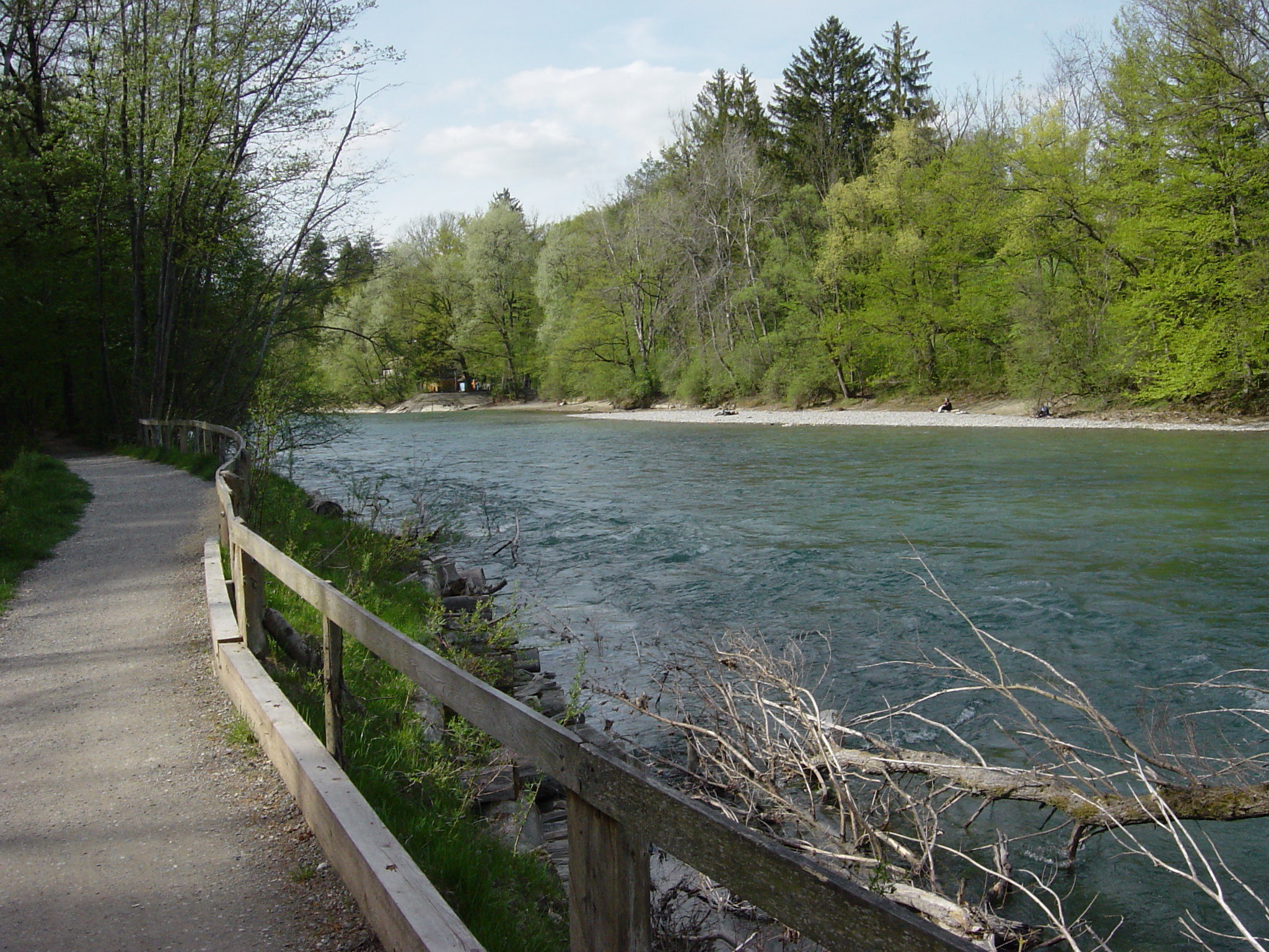 Image contains text: SONY CYBERSHOT 2003:04:27 16:01:02